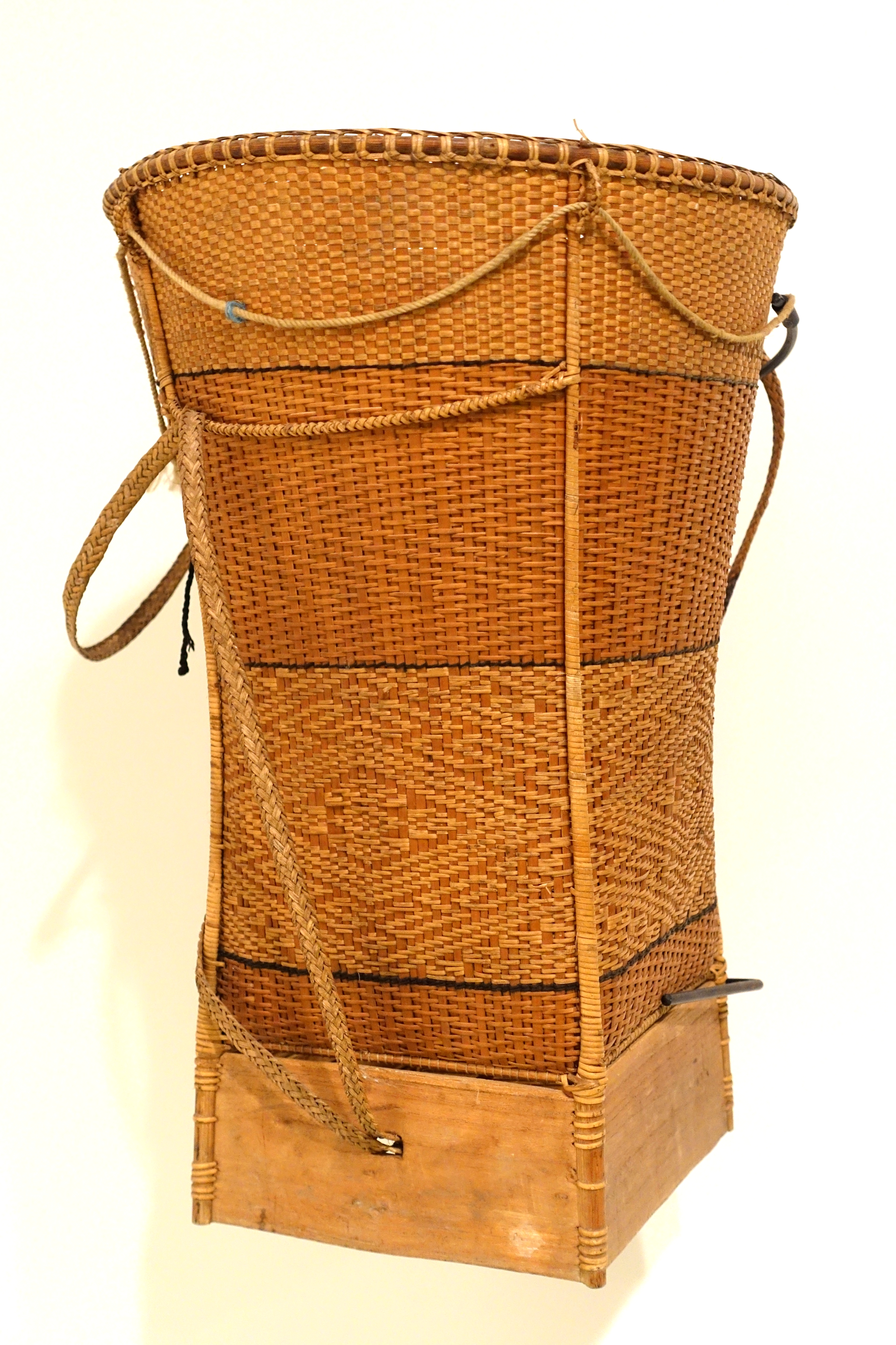 Exhibit in the Vietnamese Women's Museum, Hanoi, Vietnam.